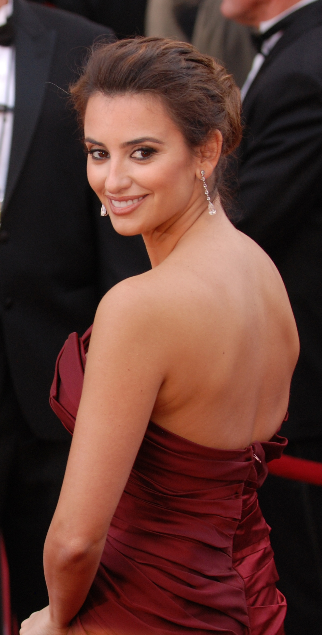 Penélope Cruz arrives at the 82nd Academy Awards, March 7, in Hollywood, Calif. She was nominated for a supporting actress Oscar for her role in "Nine." depicted person: Penélope Cruz (age: 35.86)